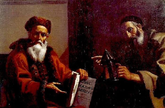 Plato and Diogenes.label QS:Len,"Plato and Diogenes."